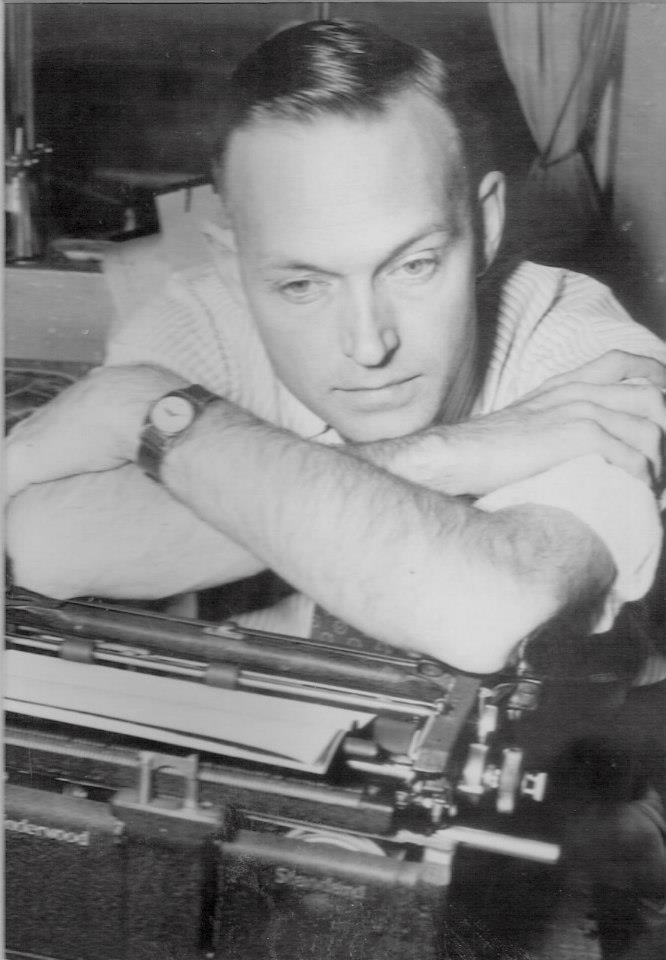 Photograph of Don Magnuson while a journalist.